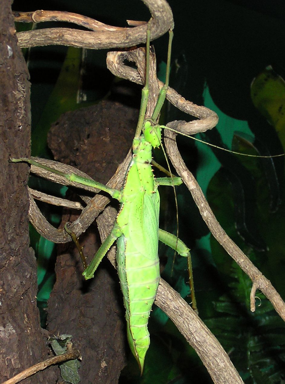 The Malaysian Giant Jungle Nymph Heteropteryx dilitata at Bristol Zoo, Bristol, England. This is one of the heaviest insects in the world. Lives in the Cameron Highlands of Malaysia. Females have no wings, male have wings and can fly. This one is a female (females are green, males are brown). Nymph is another word for larva (the life cycle stage before adulthood) but in this case the word has been used for the adult as well.